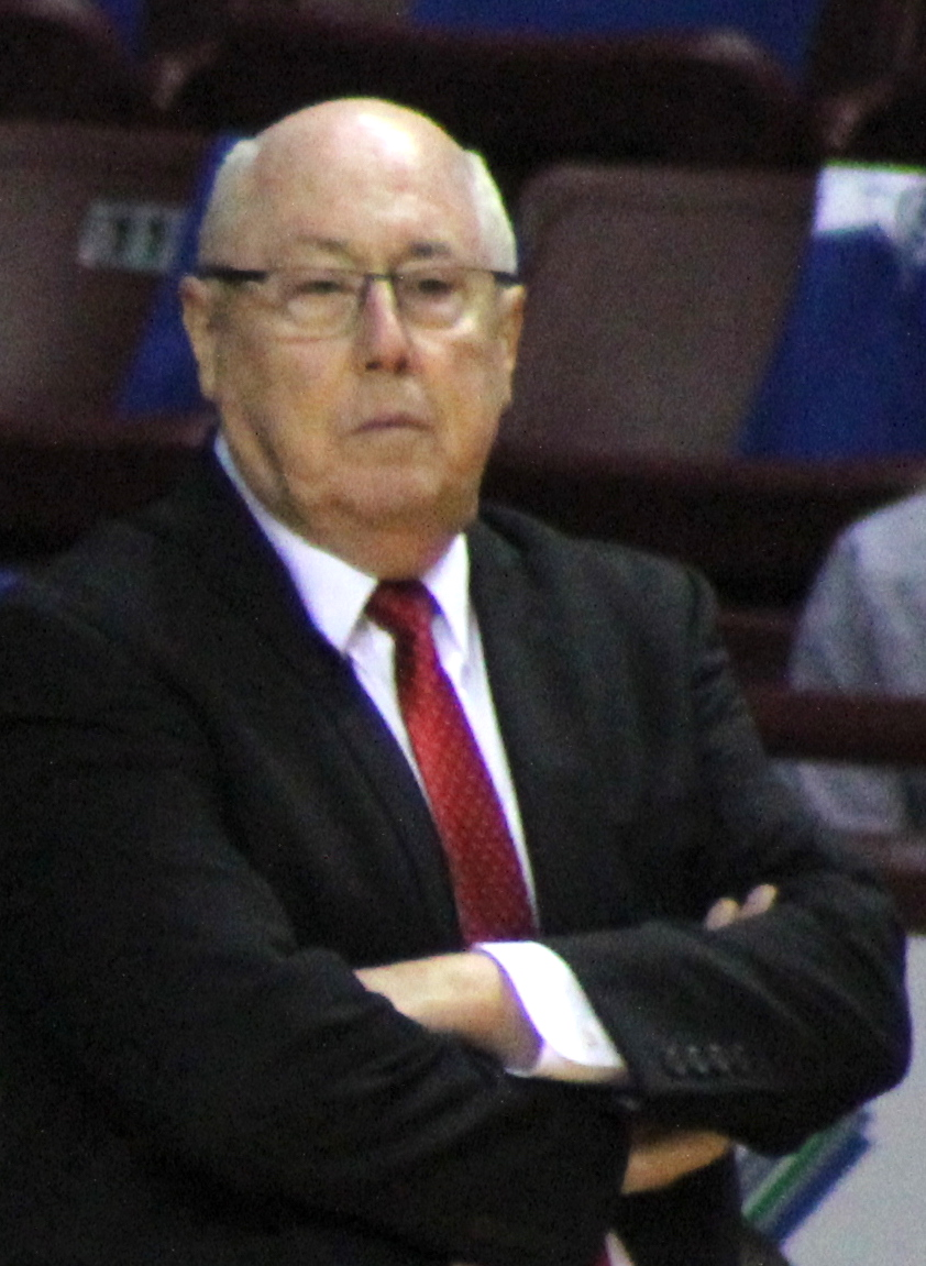 Mike Thibault during the 2017 WNBA Semifinals